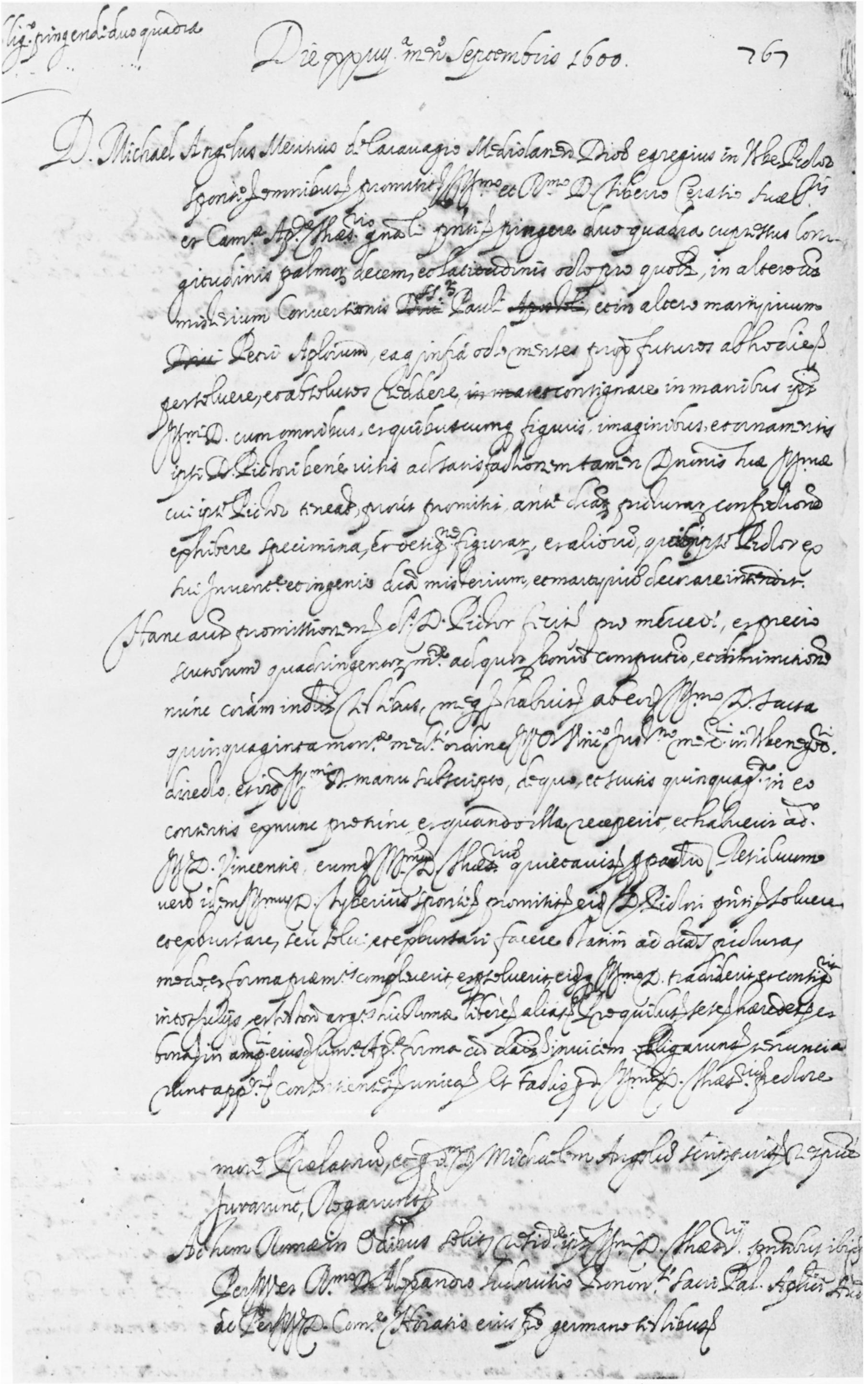 A notary's copy of the contract between Michelangelo Merisi da Caravaggio and Monsignor Tiberio Cerasi, Treasuer-General of the Apostolic Camera dated 24 September 1600. It stipulates that the "the distinguished painter" will paint two large cypress panels, ten palms high and eight palms wide, representing the conversion of Saint Paul and the martyrdom of Saint Peter within eight months for the price of 400 scudi. The paintings were made for Cerasi's funerary chapel in the Basilica of Santa Maria del Popolo. The document is preserved in the Archivio di Stato, Rome.